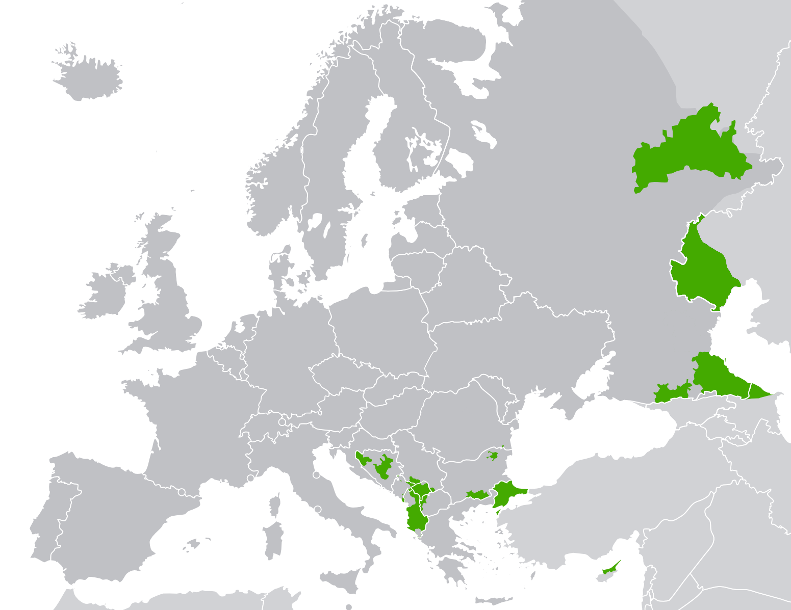 Distribution of Islam in Europe.